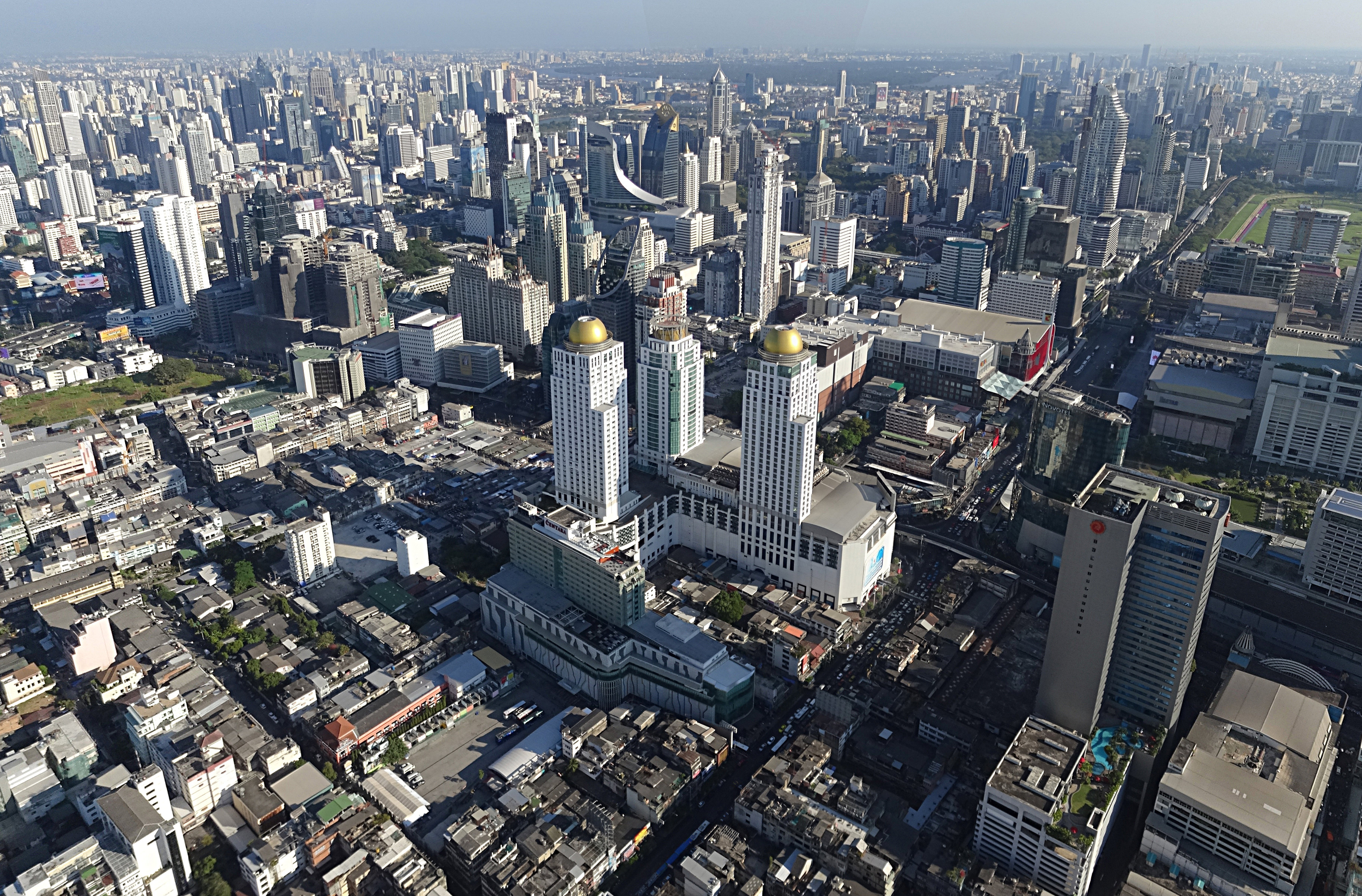 View from the Baiyoke Sky Tower (Bangkok) to the southeast to the round domes of the Pratunam shopping mall (Palladium World)